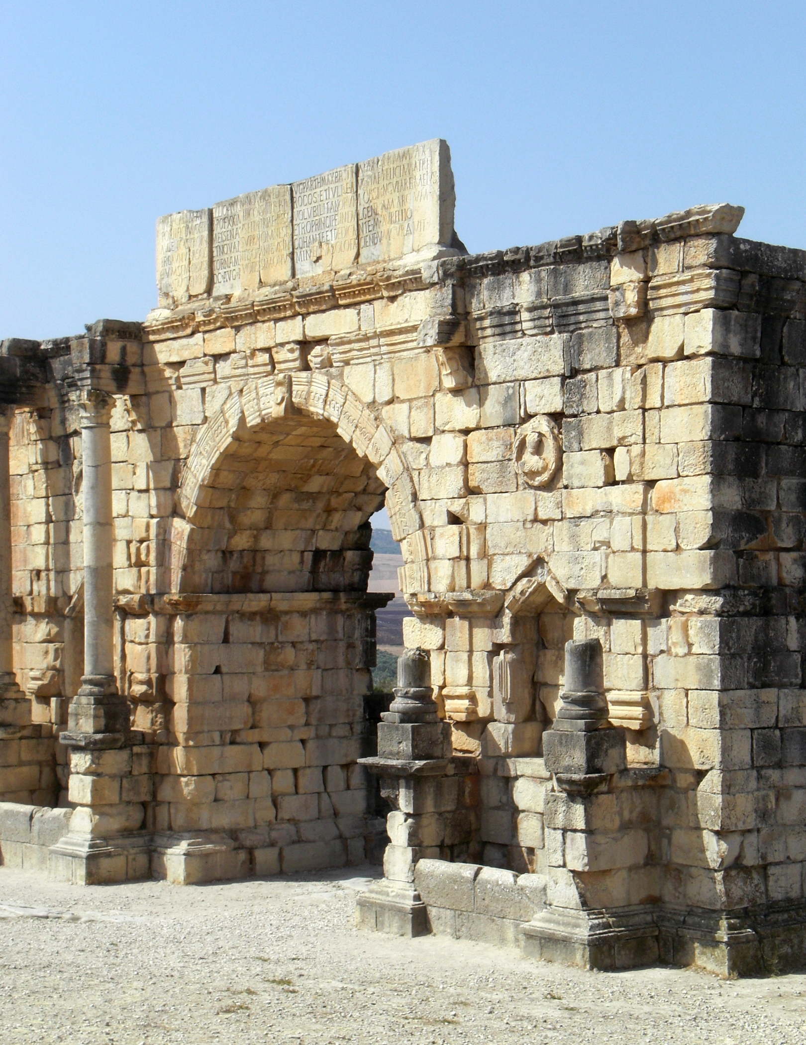 The ancient Triumphal Arch of Volubilis, Morocco.